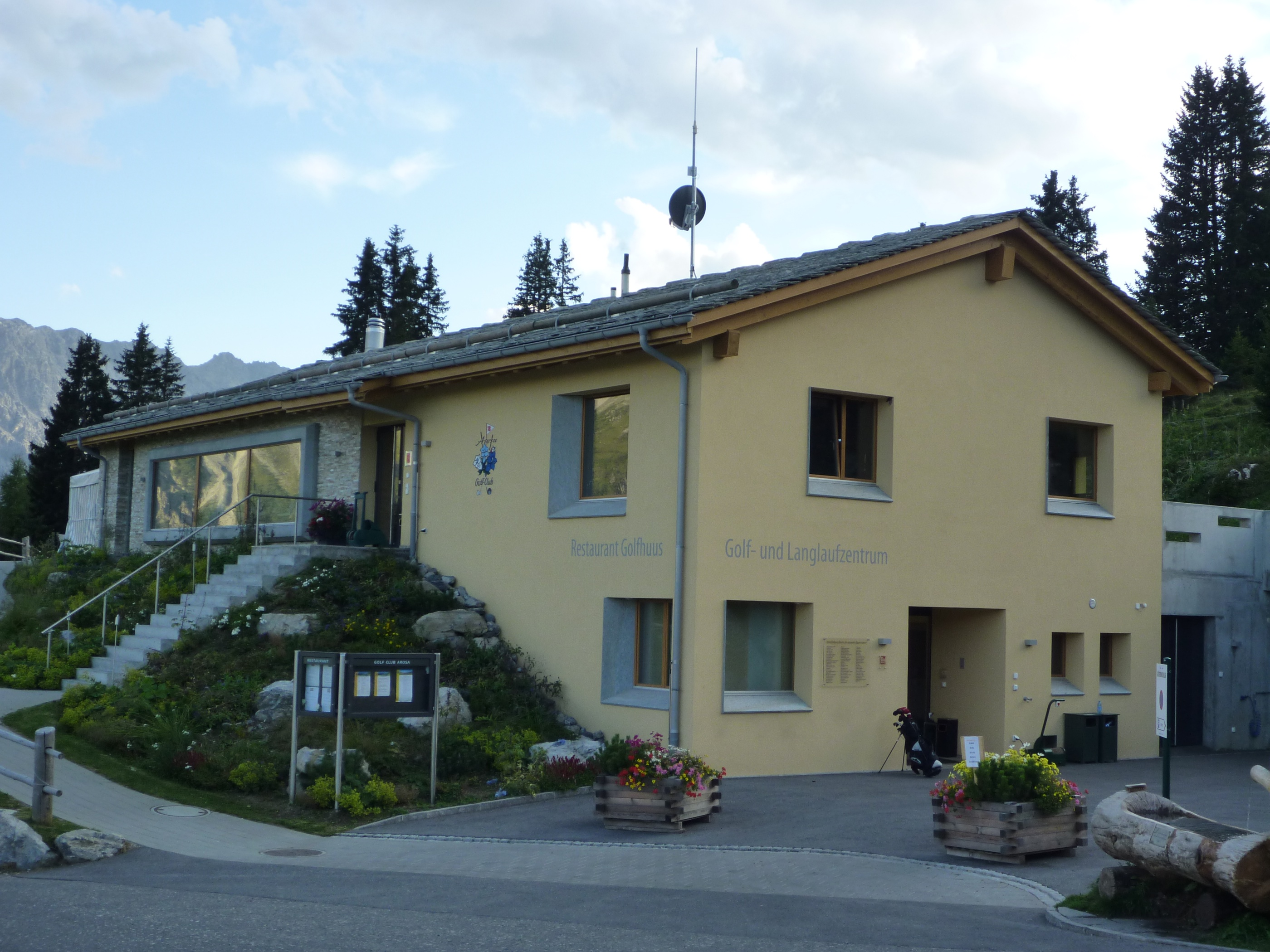 Golf and cross-country-skiing center at Arosa, Switzerland